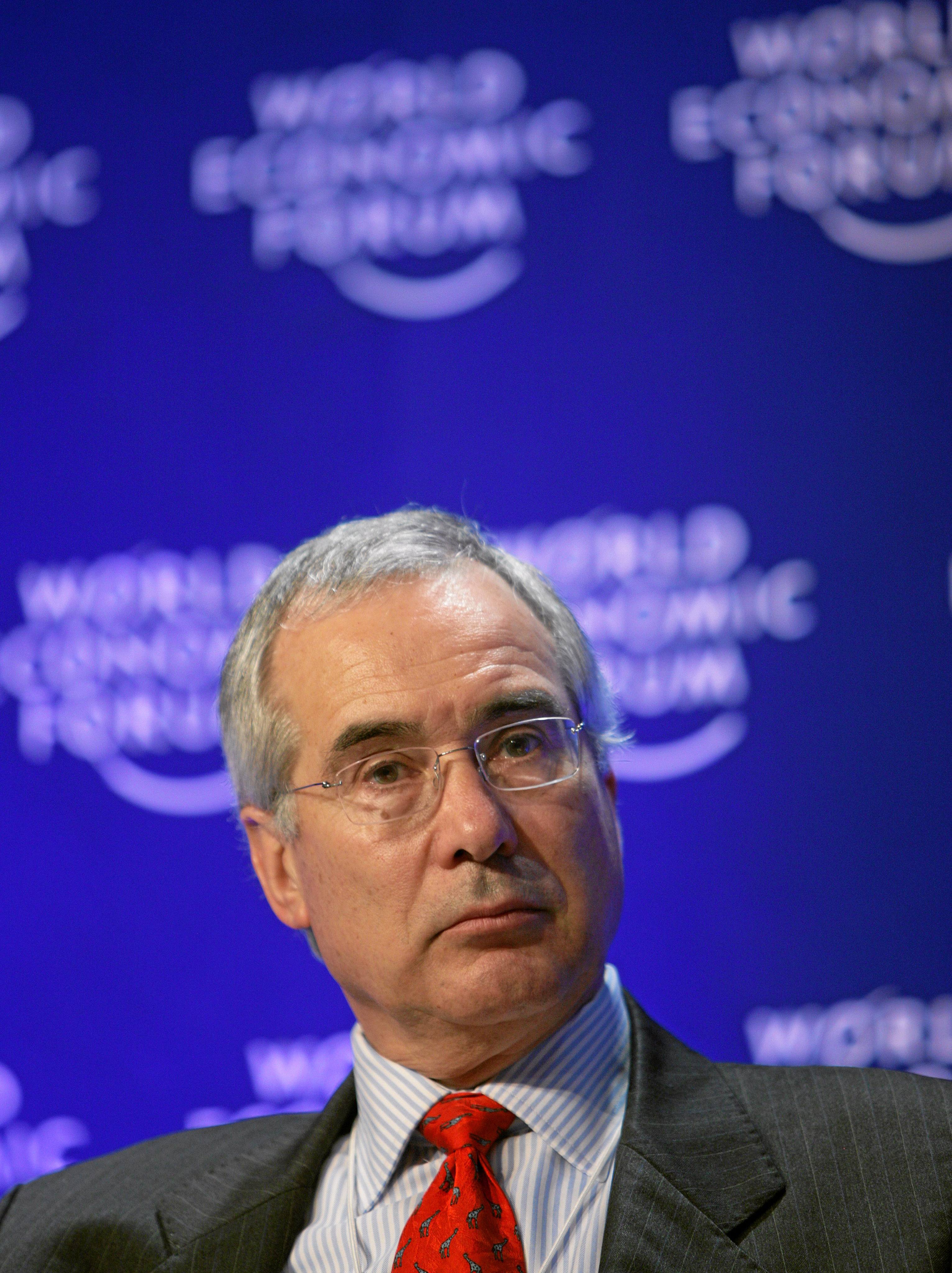 DAVOS-KLOSTERS/SWITZERLAND, 29JAN09 - Nicholas Stern, IG Patel Professor of Economics and Government, India Observatory, London School of Economics, United Kingdom, captured during the session 'Managing Global Risks' at the Annual Meeting 2009 of the World Economic Forum in Davos, Switzerland, January 29, 2009. Copyright by World Economic Forum by Sebastian Derungs